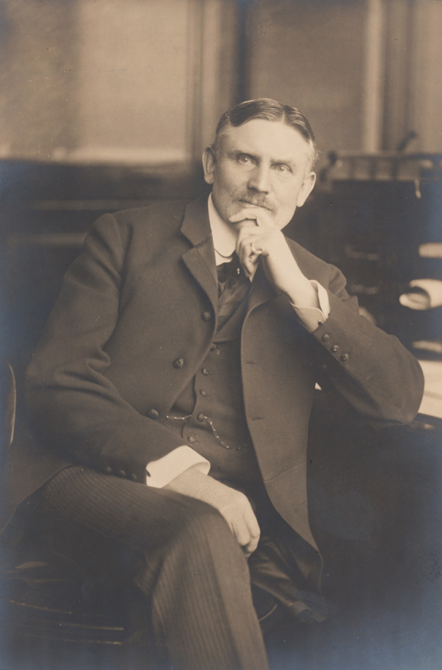 This is a portrait of Adolphus Clay Bartlett circa 1900